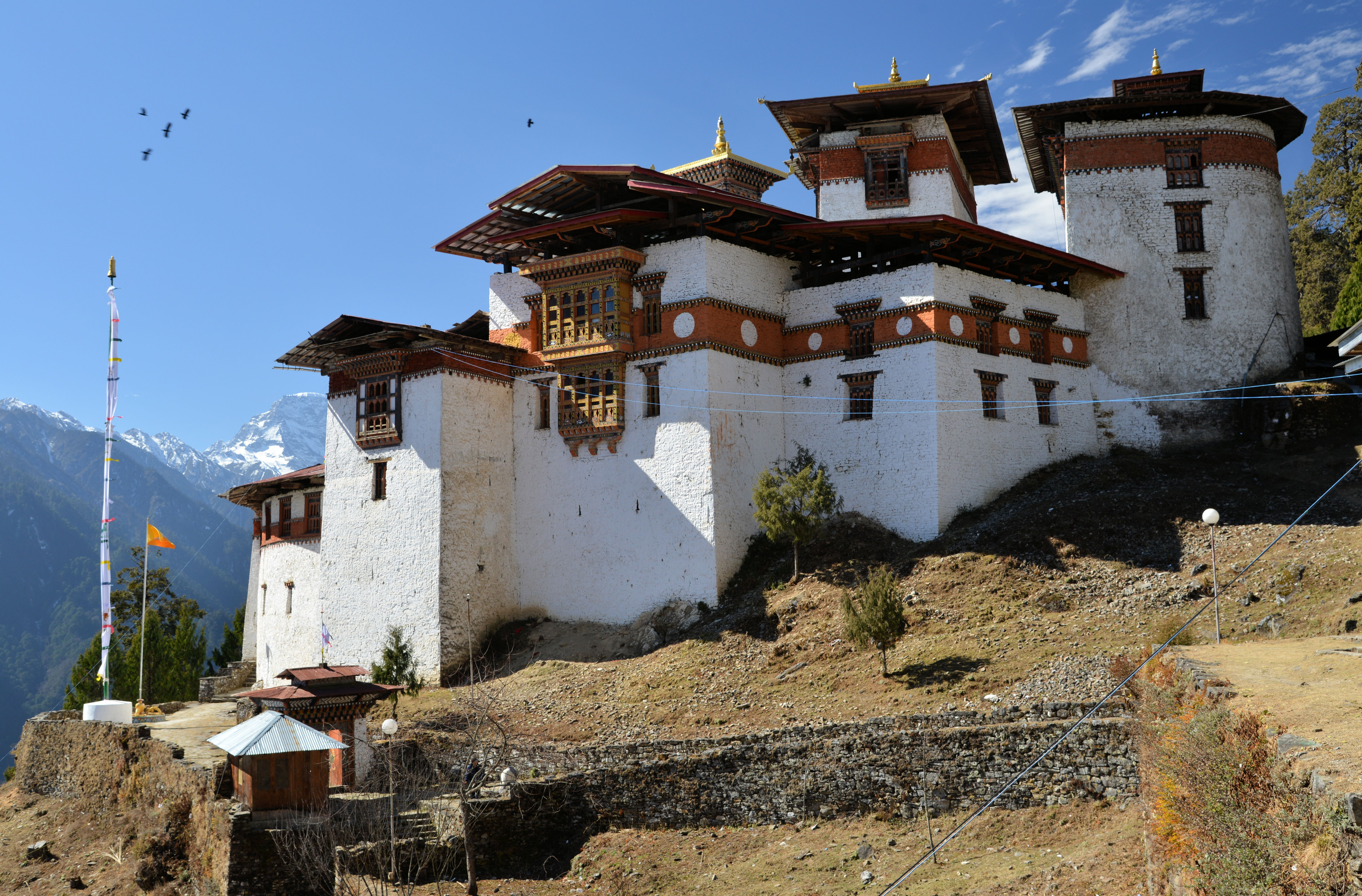 Gasa Dzong (Tashi Tongmön Dzong), Bhutan.view from NE